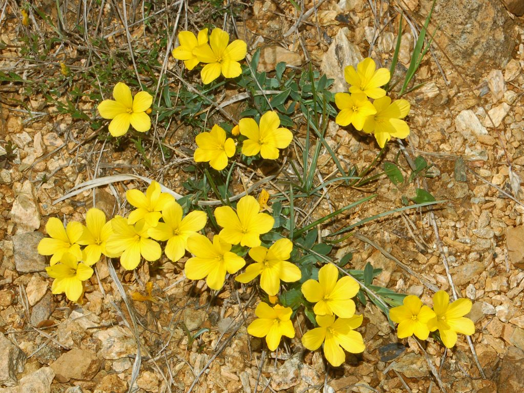 Piani di Praglia, Genova, Italy